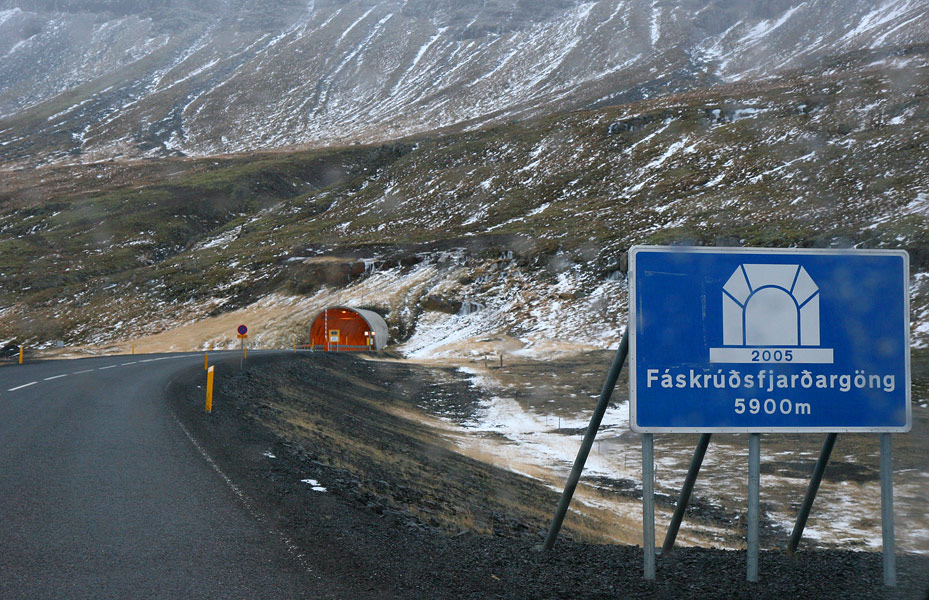 Tunnel to Fáskrúðsfjörður, under Kollufjall (1025m) November 23 12:10 Iceland, November 2007 Photo by me user:debivort (or friend, with permission given to freely license photo).